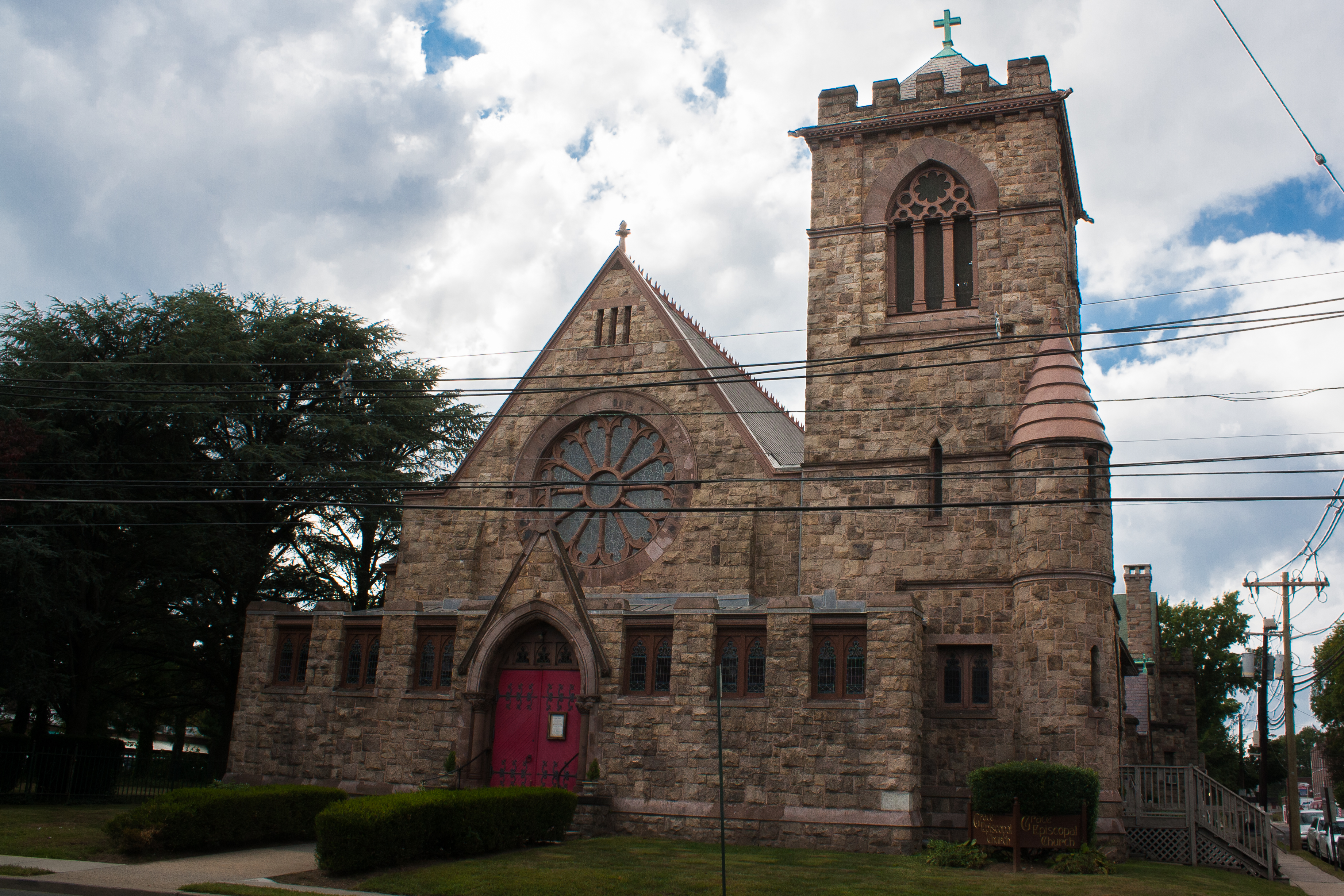 Grace Episcopal Church, 600 Cleveland Ave. Plainfield